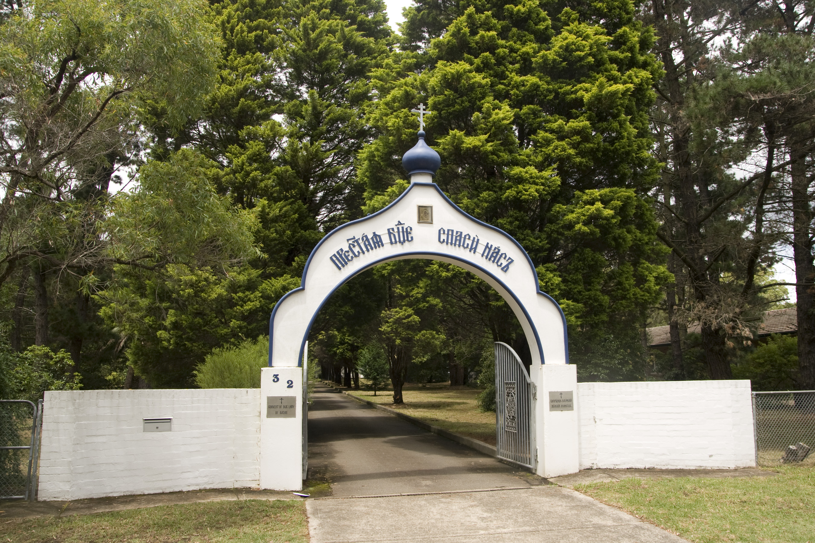 Kentlyn NSW 2560, Australia